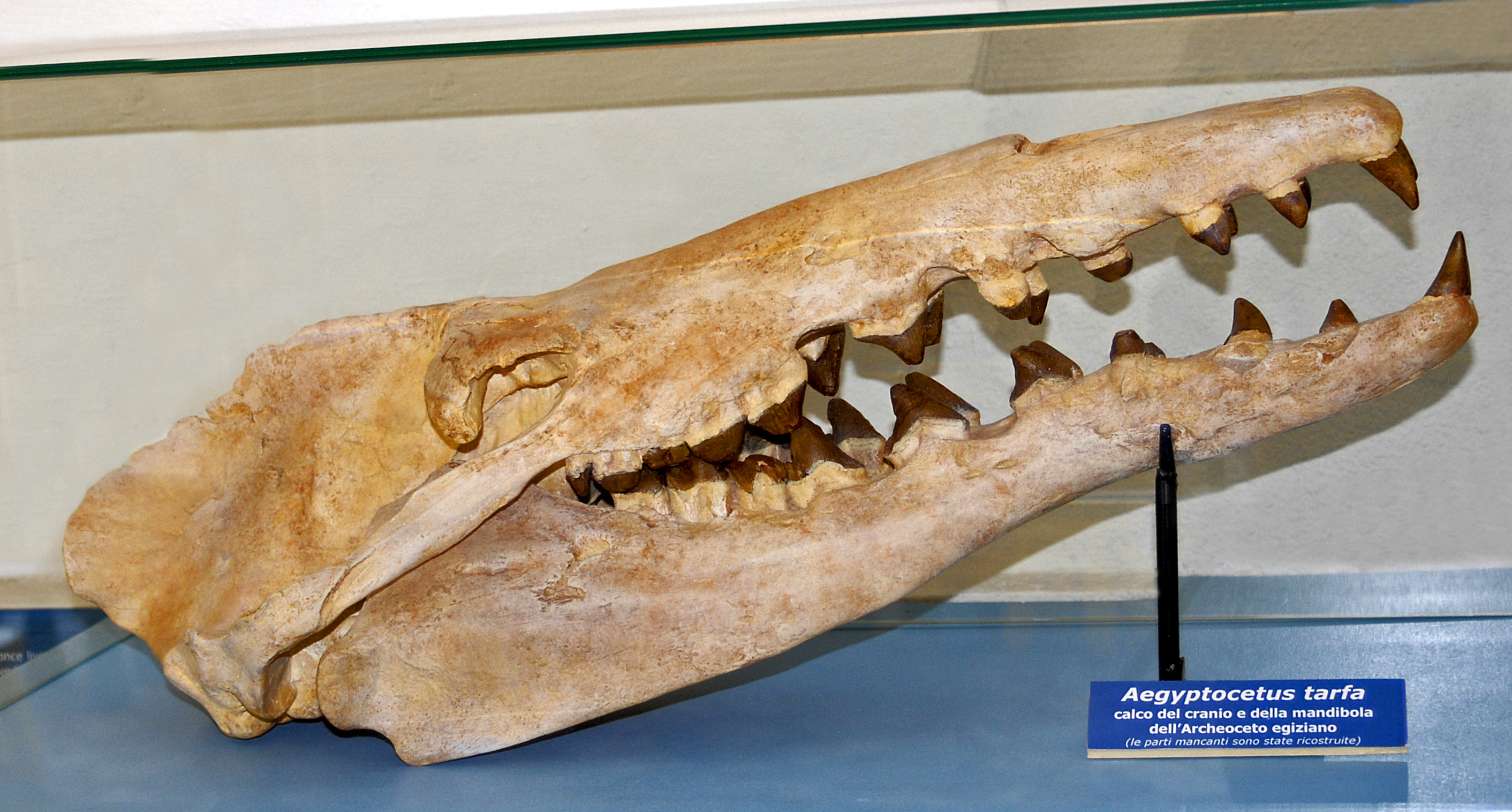 Skull cast of Aegyptocetus tarfa, on display at the Museo di Storia Naturale e del Territorio, Calci (Province Pisa), Italy